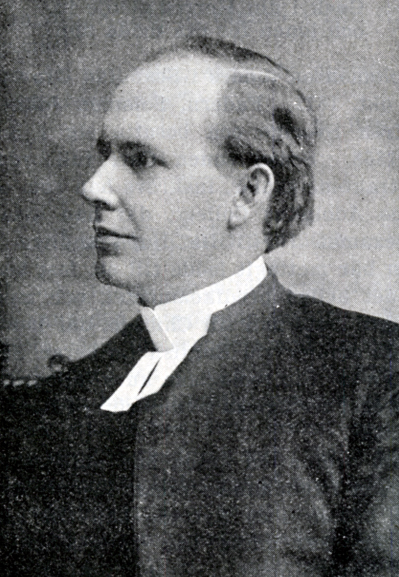 President of Northwestern College (Fergus Falls, MN)